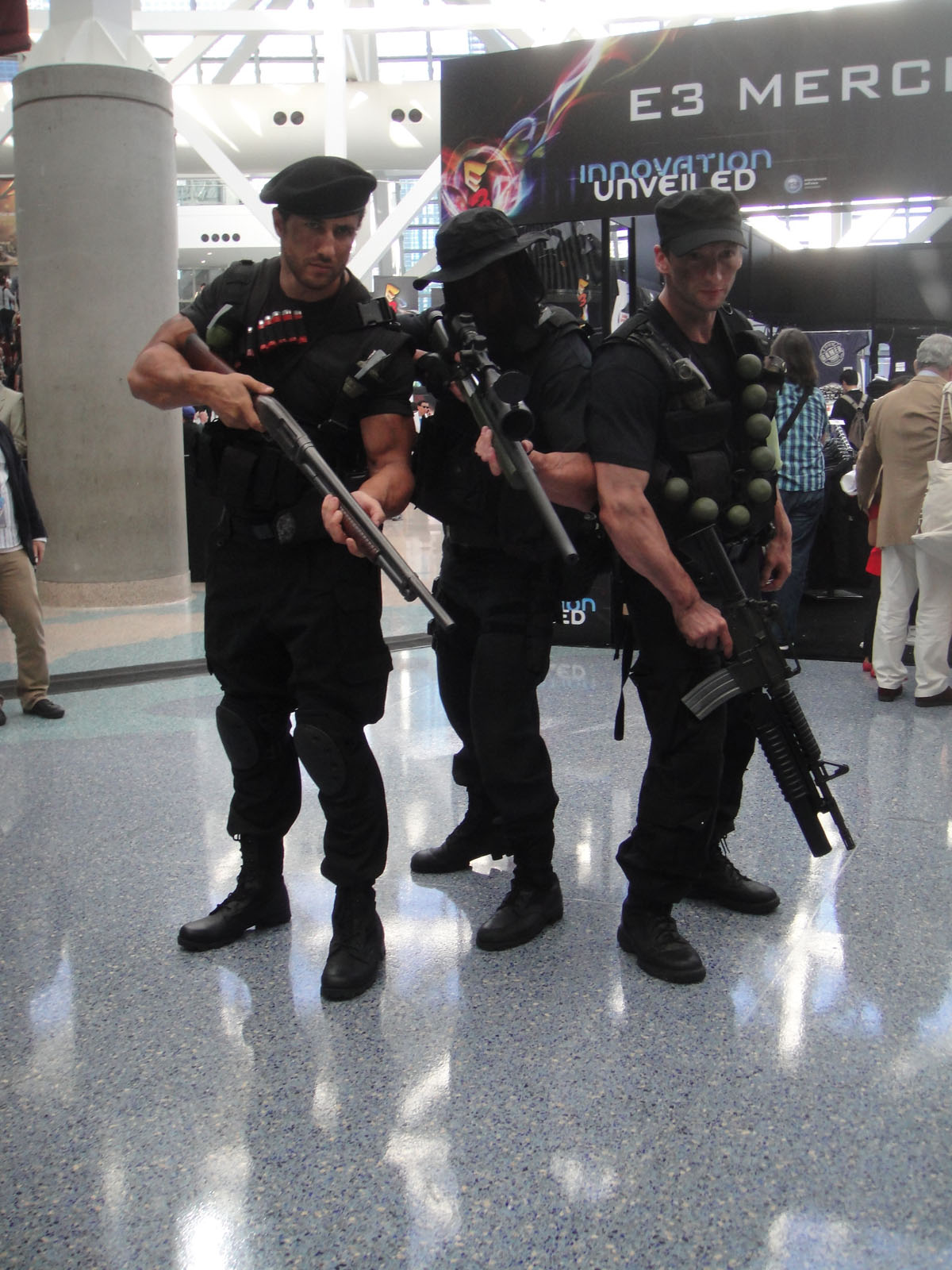 E3 Expo 2012 - black ops soldiers